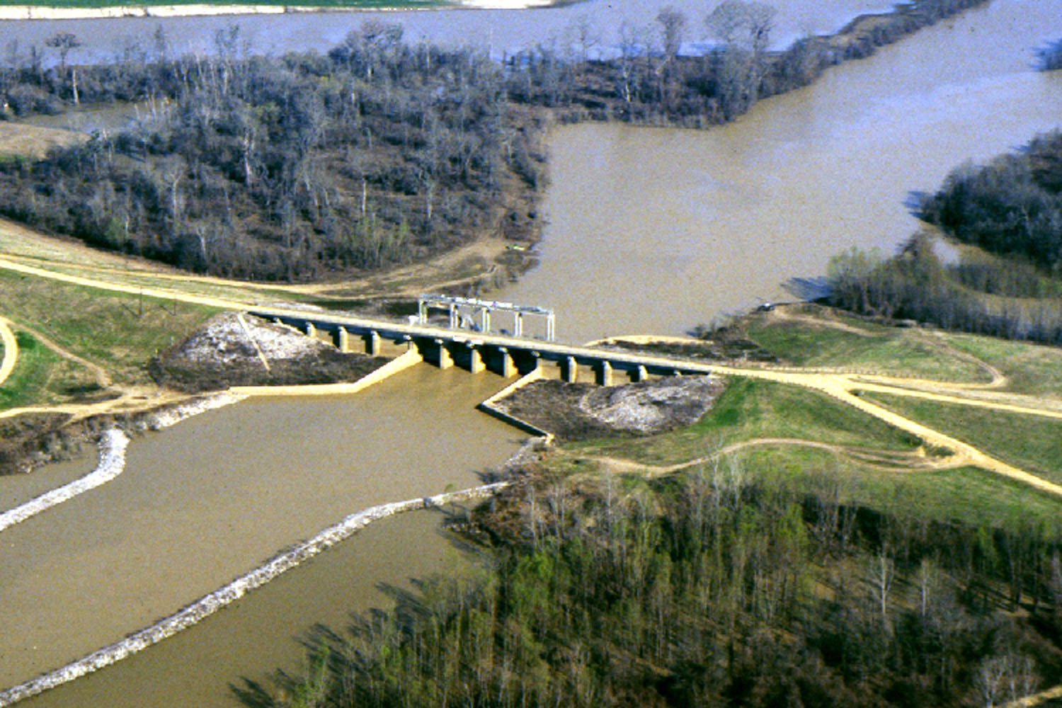 One of many control structures used to control flooding and the flow of water in the low-lying Yazoo River Basin in Mississippi, USA.